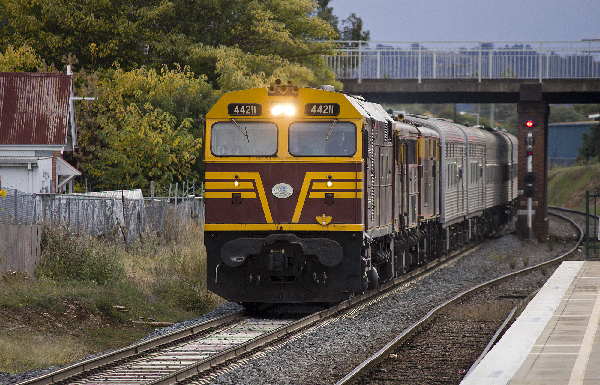 Southern Aurora passing Wagga Wagga Railway Station in Wagga Wagga, New South Wales.